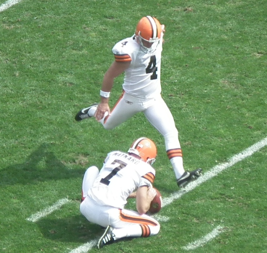 Cleveland Browns kicker Phil Dawson and punter/holder Brad Maynard